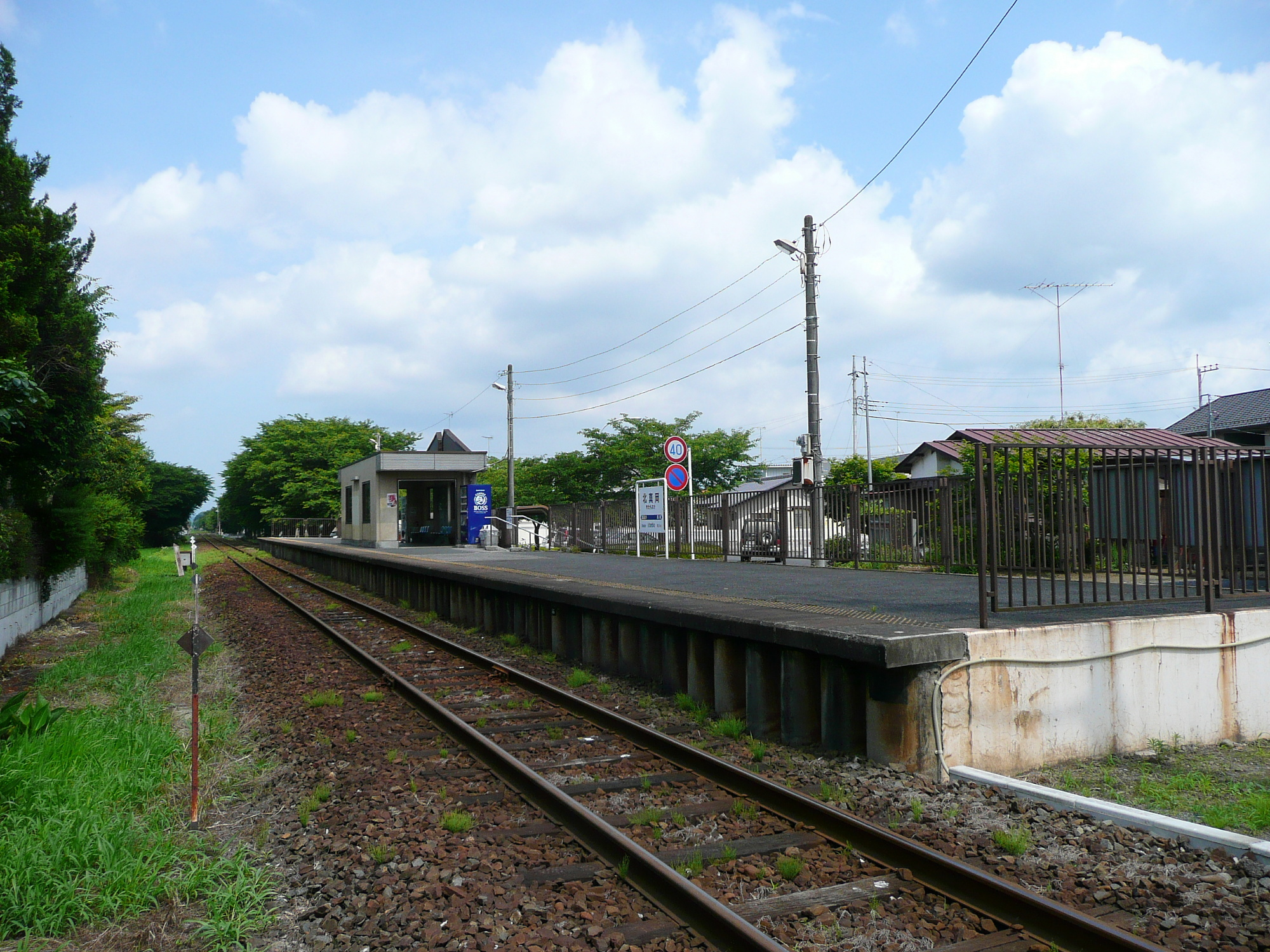 Kita-Moka Station platform,Moka Railway.